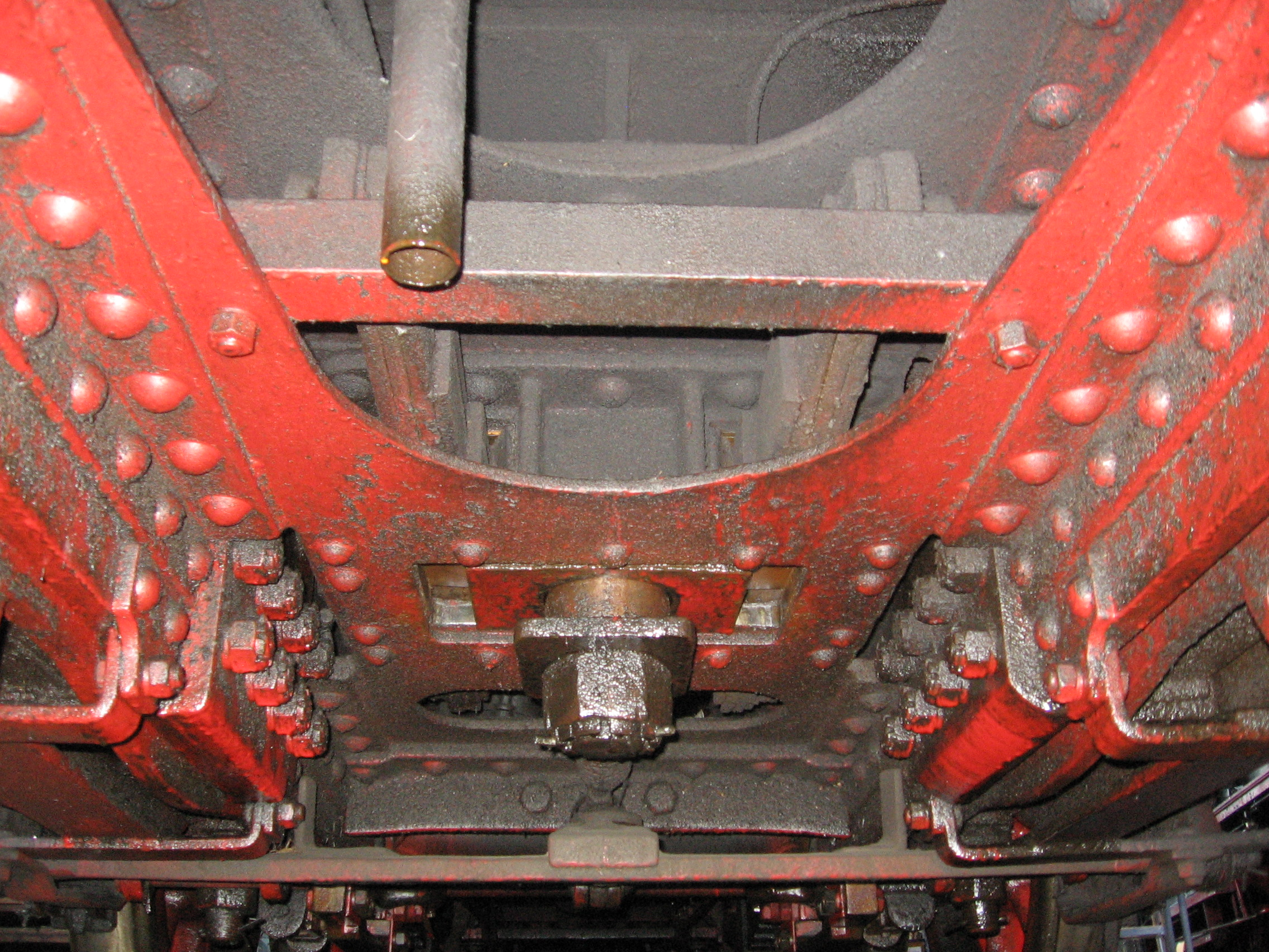 Frame of the leading bogie of the DR locomotive 03 001 in Dresden Altstadt. Well seen is pivot and laminated springs over the frame, which return the pivot socket to the central position.